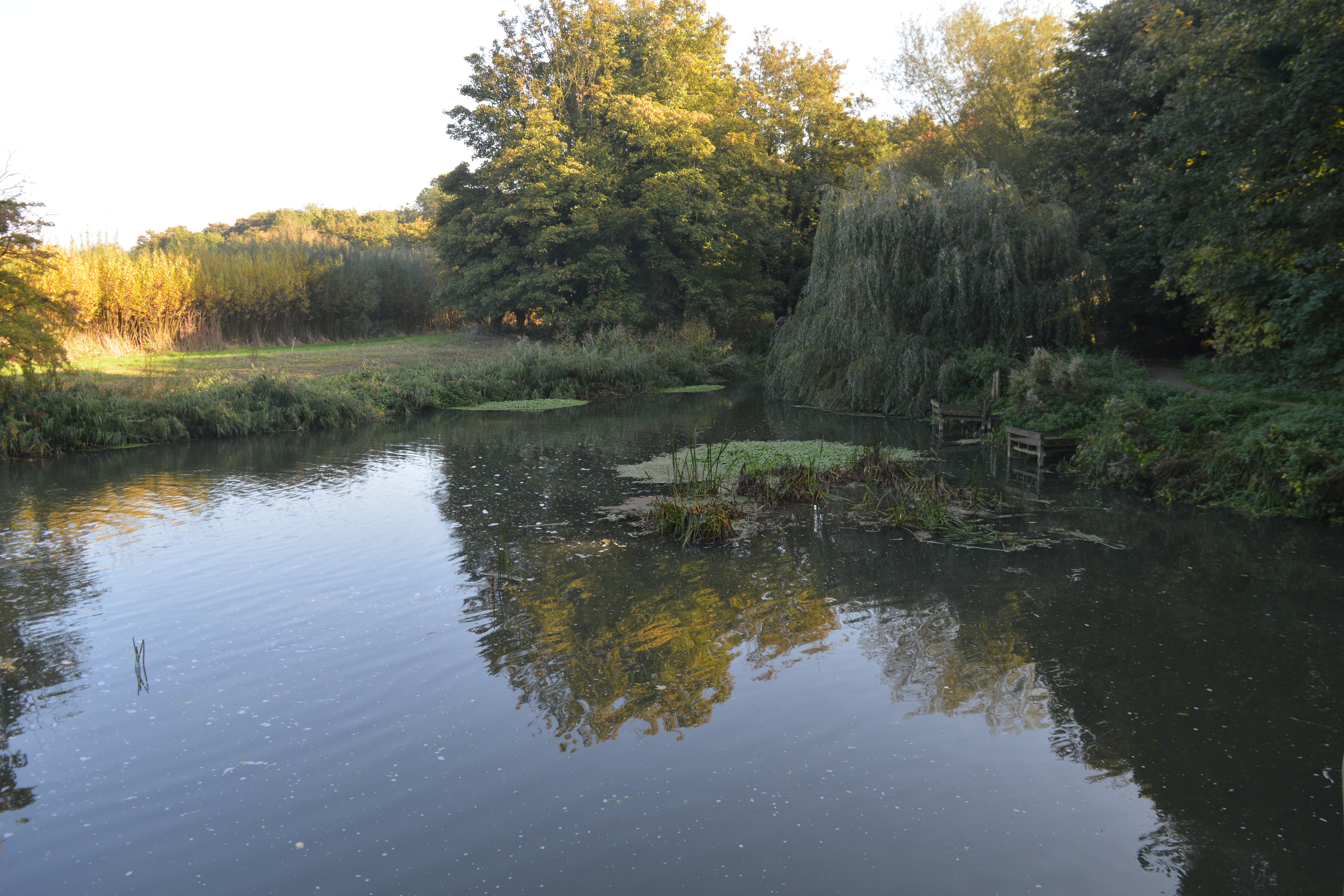 Byron's Pool is a Local Nature Reserve in Grantchester, near Cambridge.